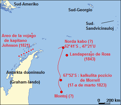 Base map is an original public domain map from Online Map Creation, with the coastline based on the map on page 52 of the book Antarctica by Paul Simpson-Housleydots, published by Routledge in 1992 [1]. Labels and dots added and map colored by User:Ruhrfisch